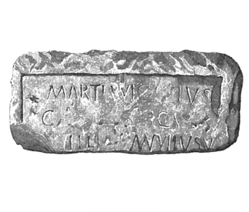 Dedication to Mars Victor, find in, or before, 1757. Built into a house on the west side of Vindolanda fort. Now built into the north face of the garden wall just east of the entry into the orchard which lies east of Vindolanda garden.